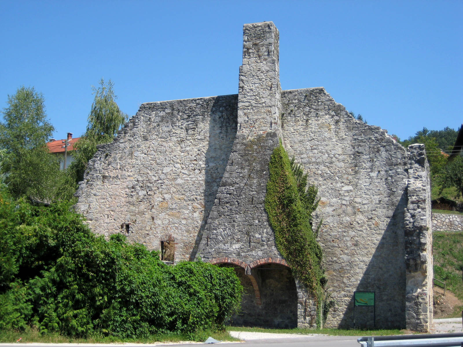 Old Iron factory, at Dvor near Žužemberk, Slovenia